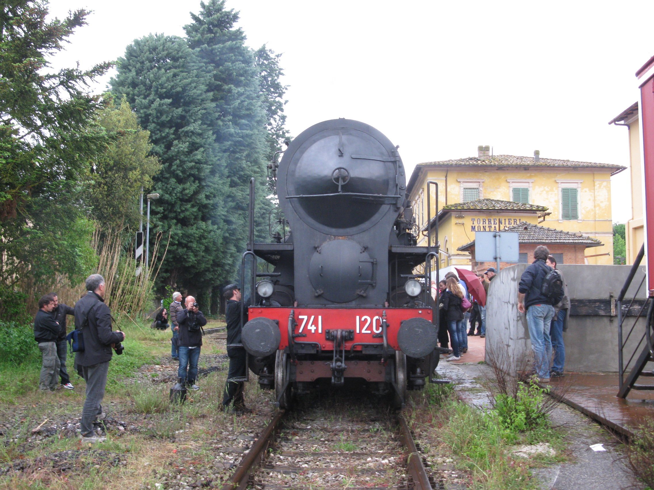 Trenonatura steam train waiting in Torrenieri-Montalcino station